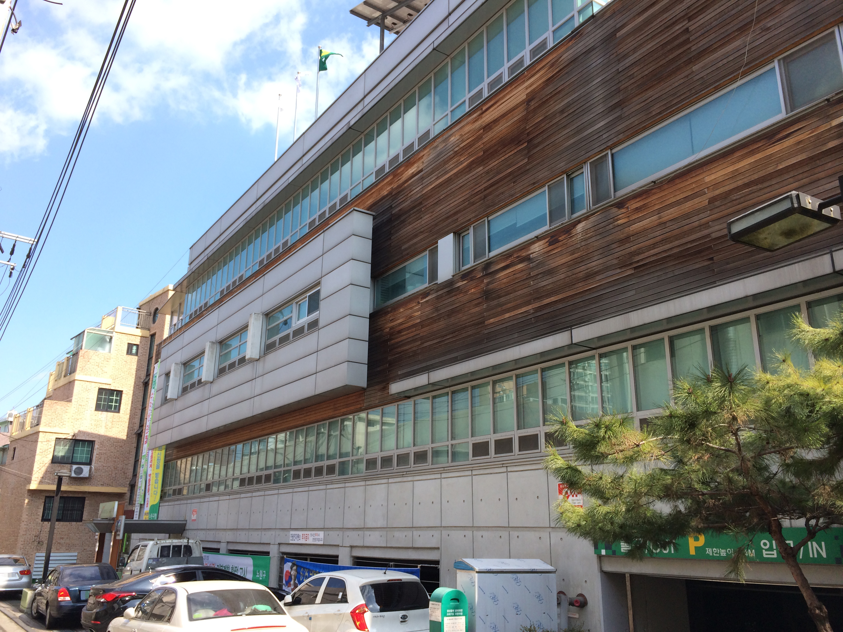 Gongneung 1-dong Comunity Service Center (Nowon-gu)